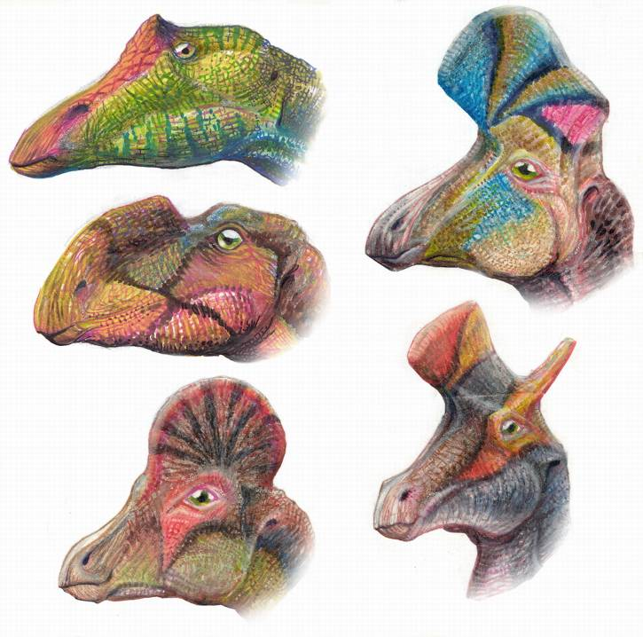 Iguanodont heads : Ouranosaurus, Muttaburrasaurus, Corythosaurus (left column) and Lambeosaurs (right column - L. magnicistratus and L. lambei).